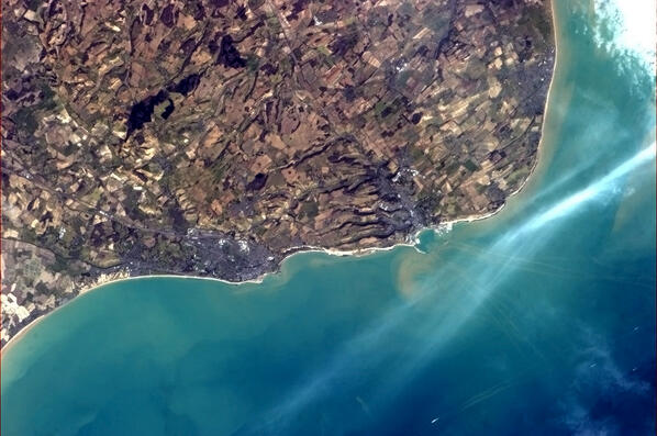 Folkestone and Dover from the International Space Station. Note the White Cliffs, and the tracks of ferries. ISS Crew Earth Observations: ISS034-E-062863 Identification Mission ISS034 (Expedition 34) Roll E Frame 062863 Camera Camera Focal Length 400 mm Camera NIKON D3S Quality Percentage of Cloud Cover 0-10% Nadir What is Nadir? Date 2013-03-06 Time 11:07:48